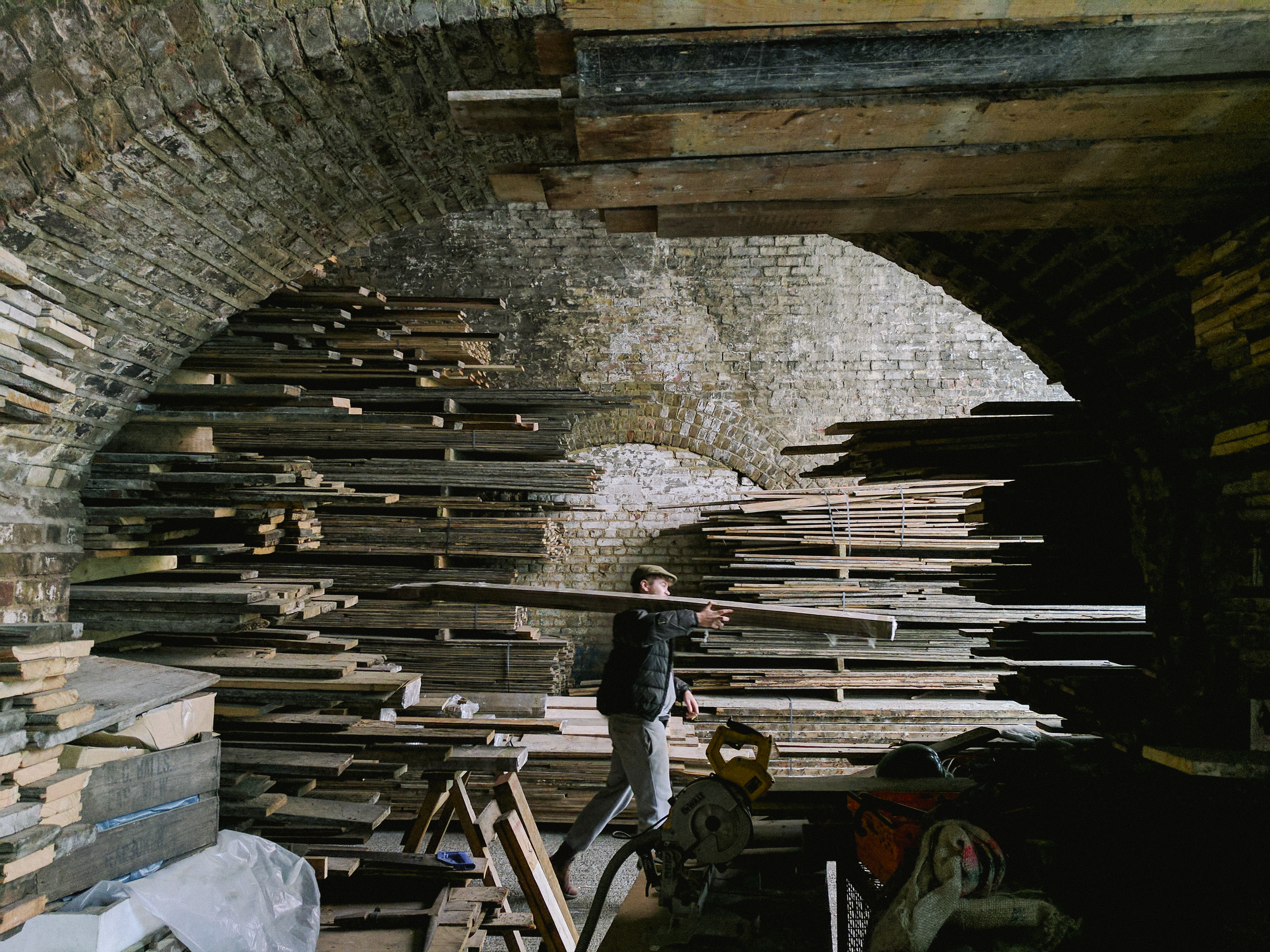 An image of a labourer in a reclamation yard on Maltby street during the week. The food market occupies this space on the weekend